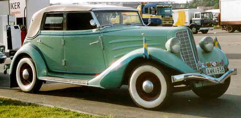 Auburn 652Y Custom Phaeton 1934